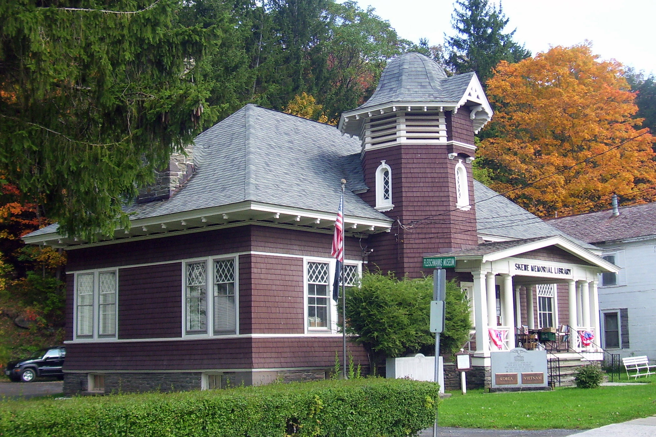 Skene Memorial Library, Fleischmanns, NY, USA. Also serves as village hall